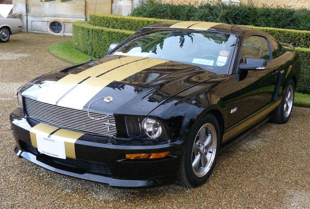 Picture of the 2006 Shelby GT-H